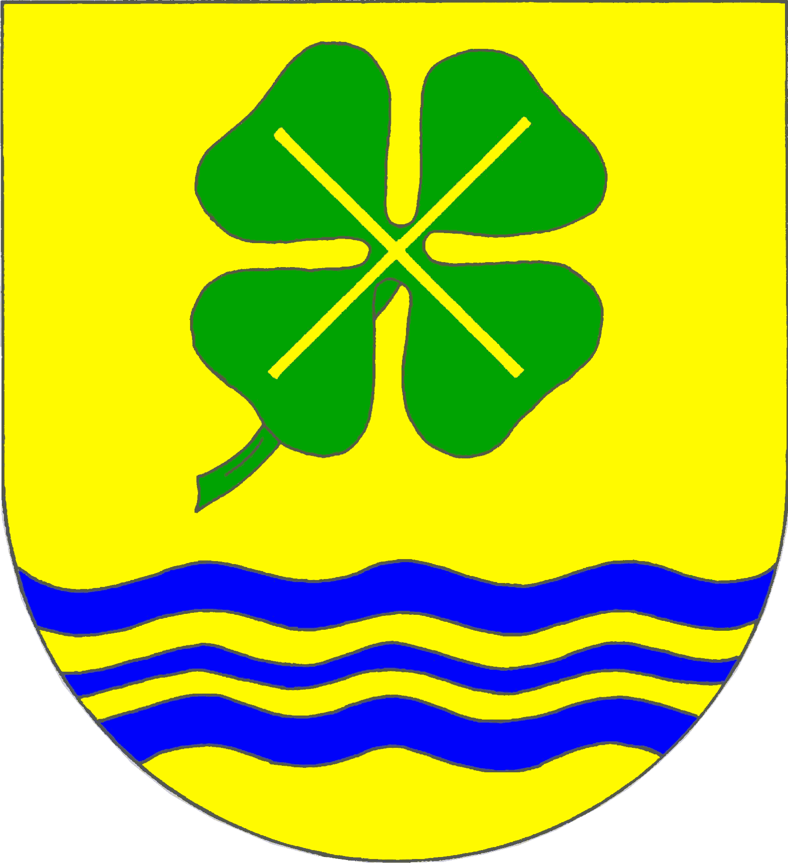 Coat of arms of the municipality Brebel in Schleswig-Holstein, Germany.